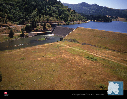 View of portion of Cottage Grove Dam.